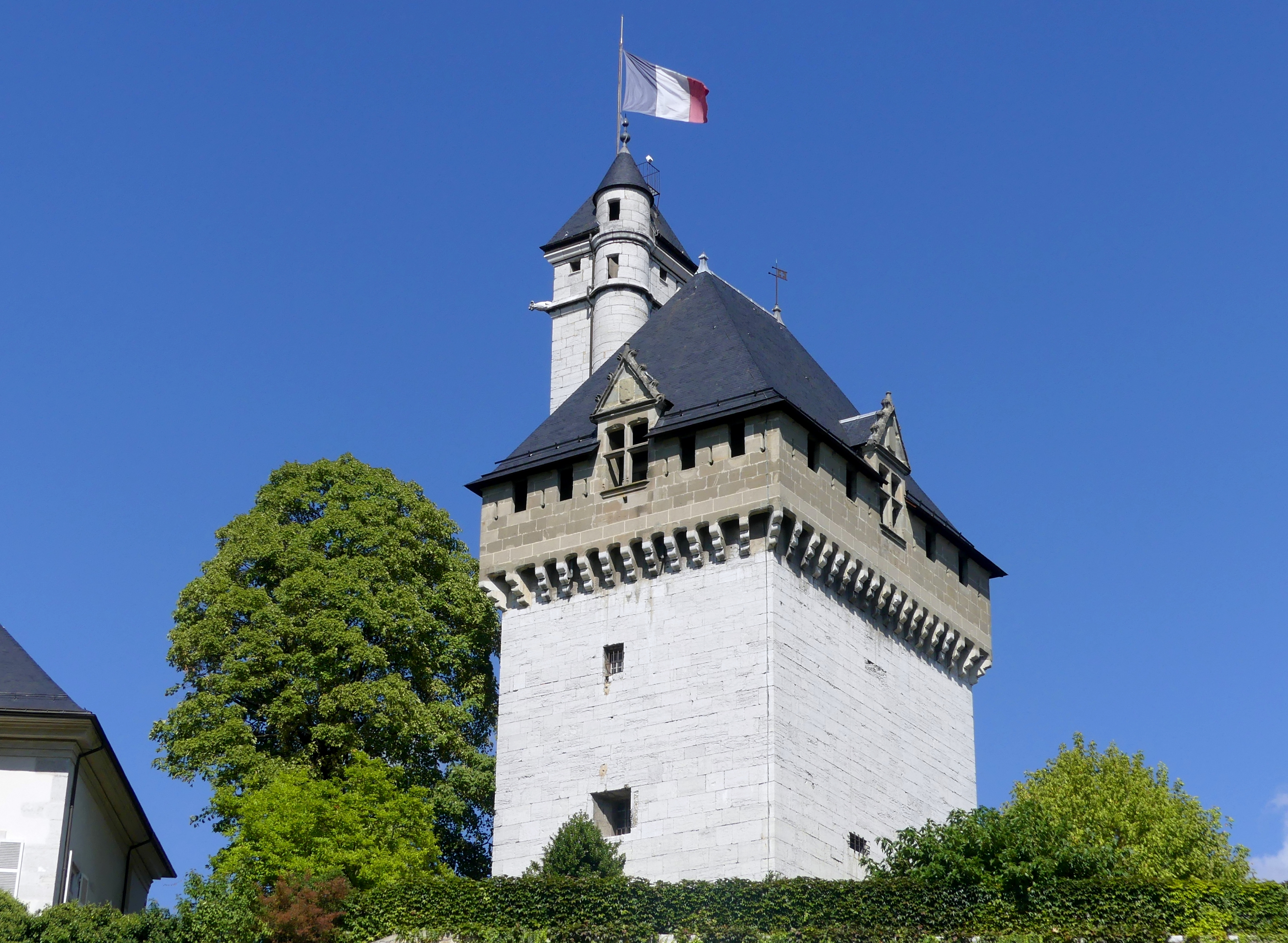 Sight of the Tour des Archives tower of Chambéry's castle, in Savoie, France.